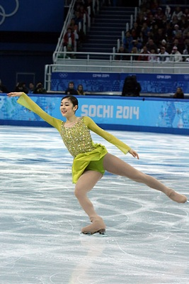 Yuna Kim 2014 Olympic Short Program